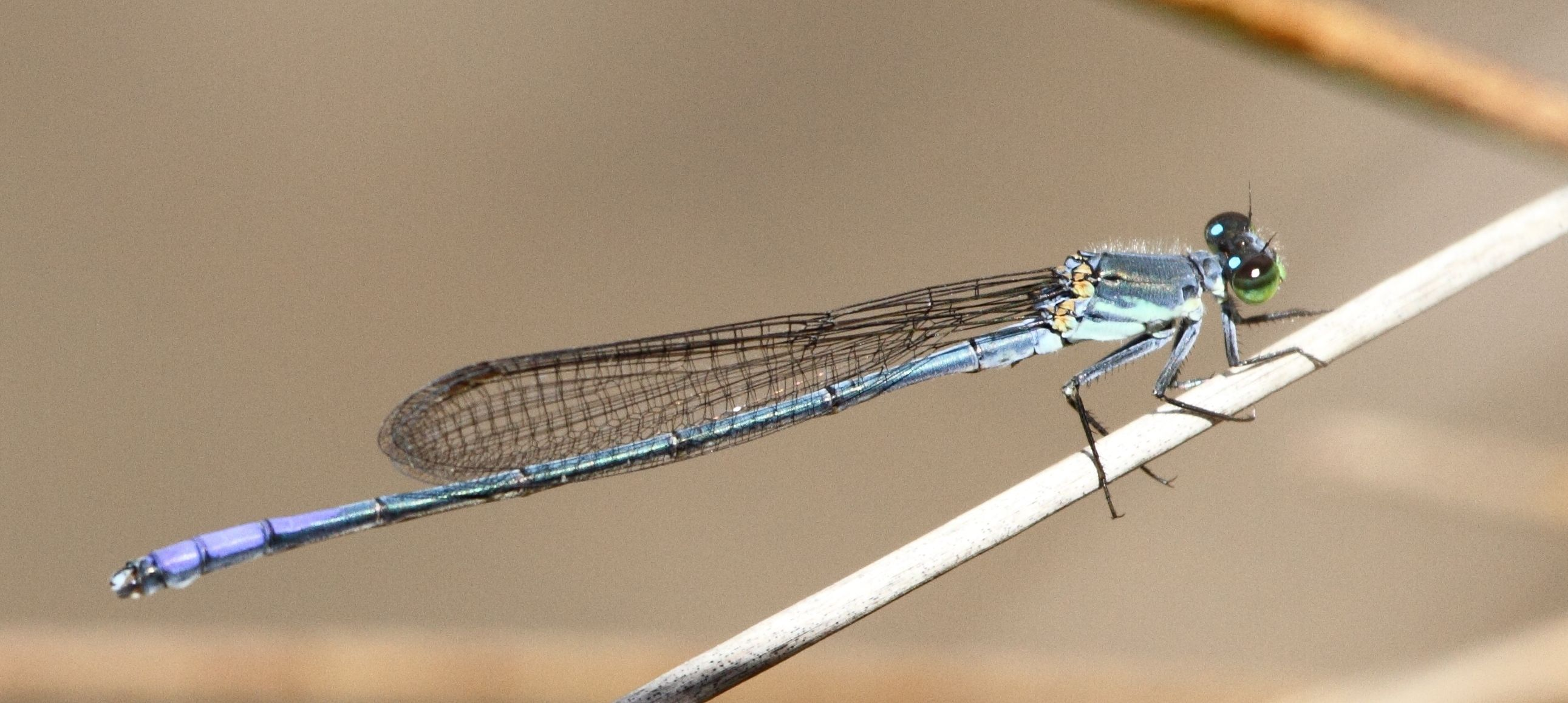 Male Balinsky's Sprite Pseudagrion inopinatum; Mkomazi River near Bulwer, KwaZulu-Natal. OdonataMAP record no.8831